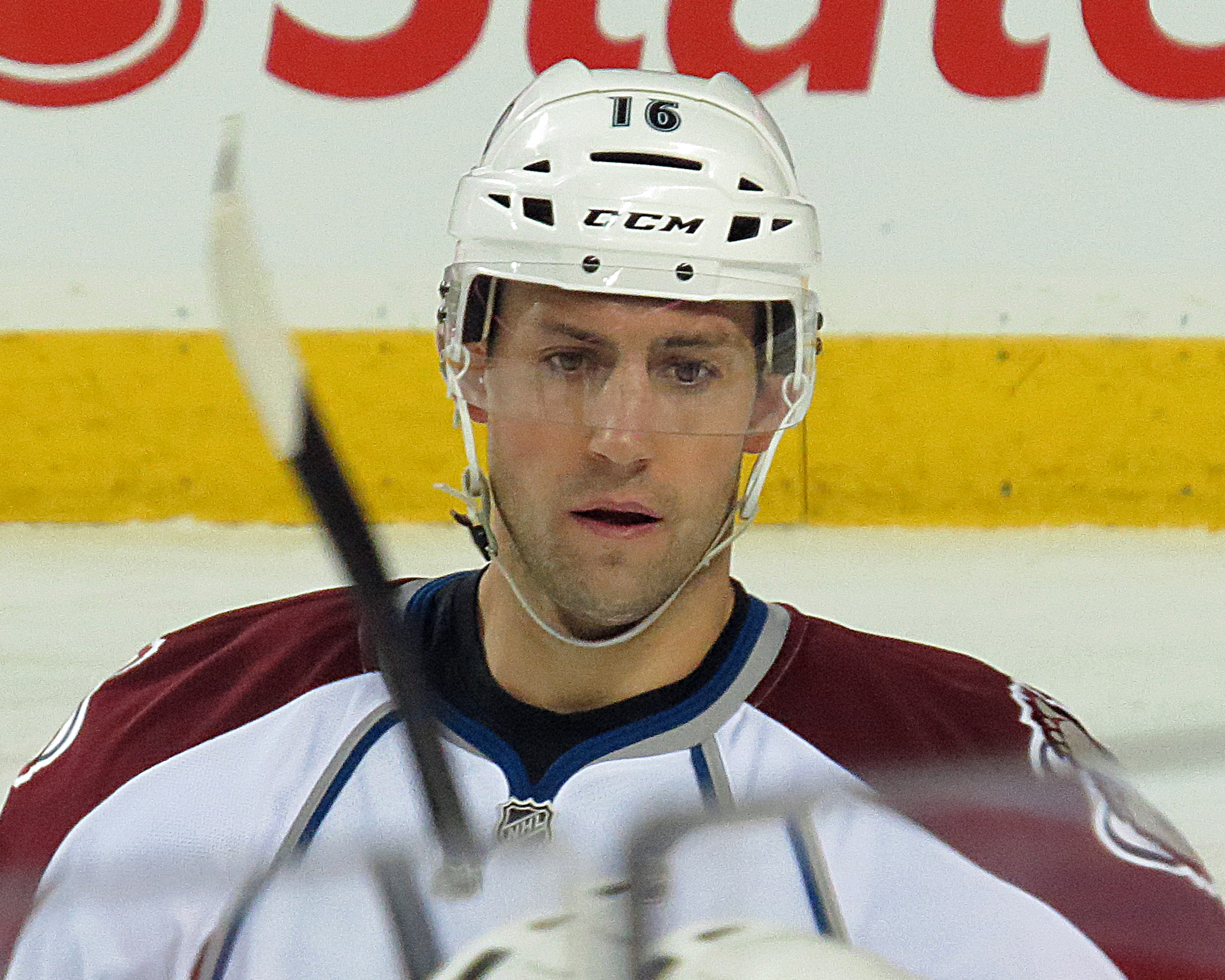 Cory Sarich, Canadian ice hockey defenseman